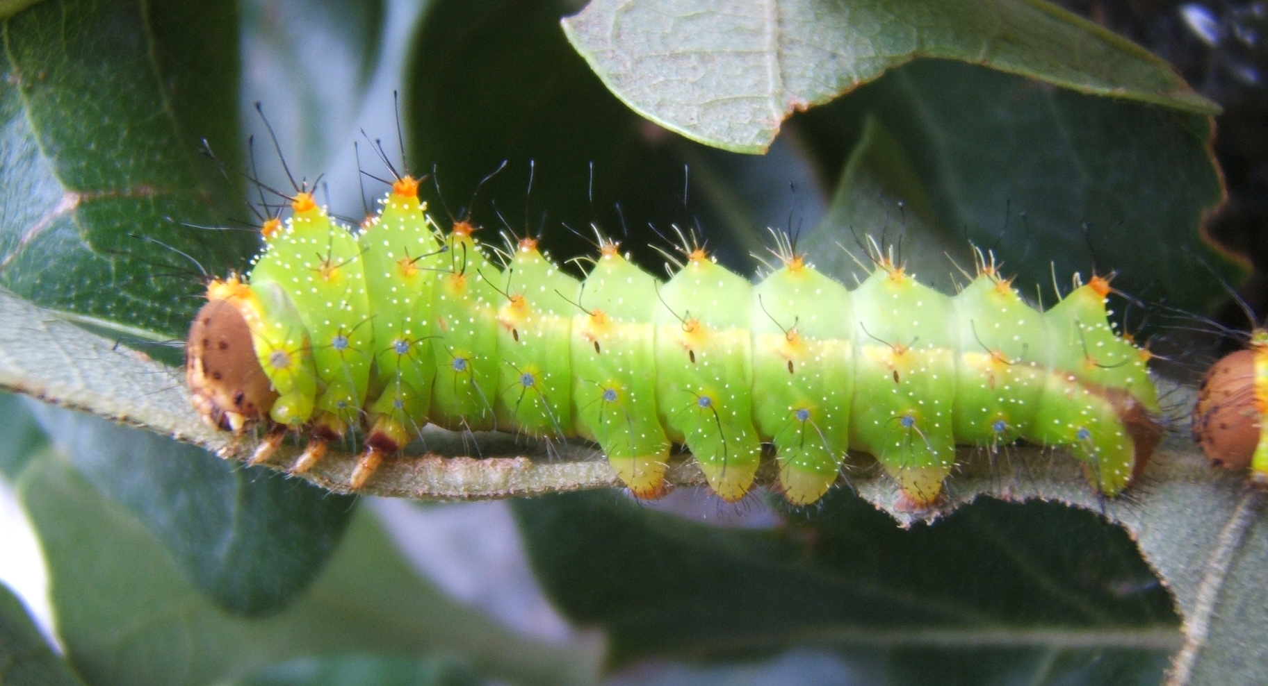 Antheraea pernyi 3rd instar caterpillars feeding on Quercus (Oak). Raised by Shawn Hanrahan.